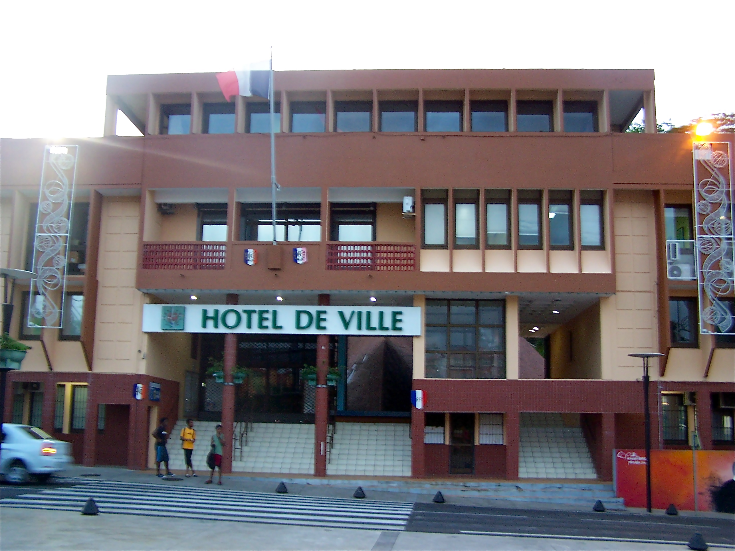 Cityhall of Les Abymes, Guadeloupe